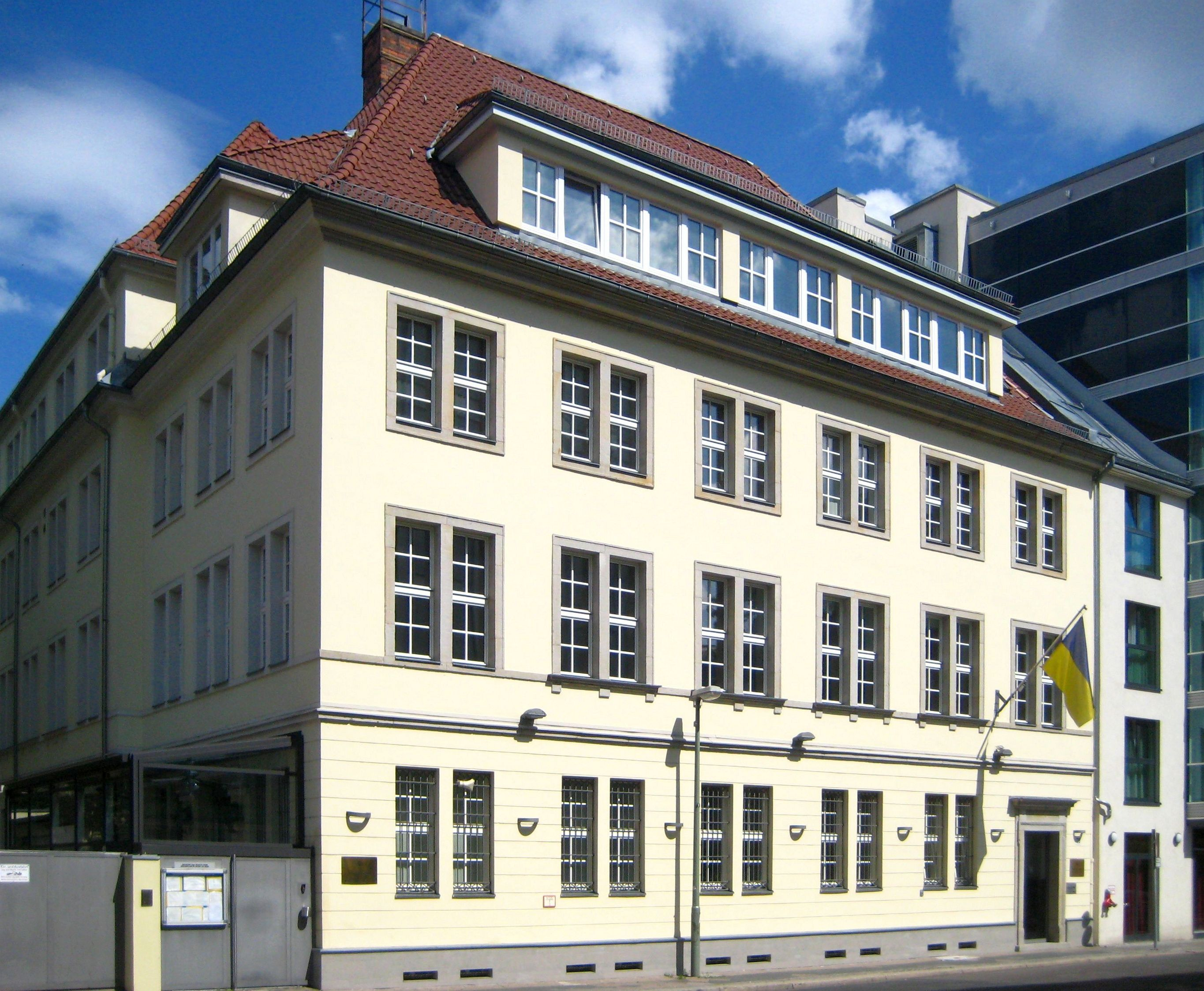 The Ukrainian Embassy at Albrechtstraße 26 in Berlin-Mitte. The building was constructed in 1910 to a design by Ludwig Hoffmann as administration building for the municipal gasworks. It is part of the protected historic buildings area Friedrich-Wilhelm-Stadt.